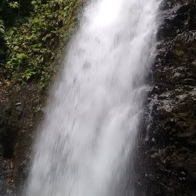 Cascada del Balneario los Tubos cerca de Buenaventura Esta fotografía fue tomada en el municipio colombiano con código 76109.